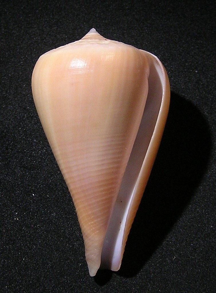 Conus patricius Hinds, 1843 ; Panama